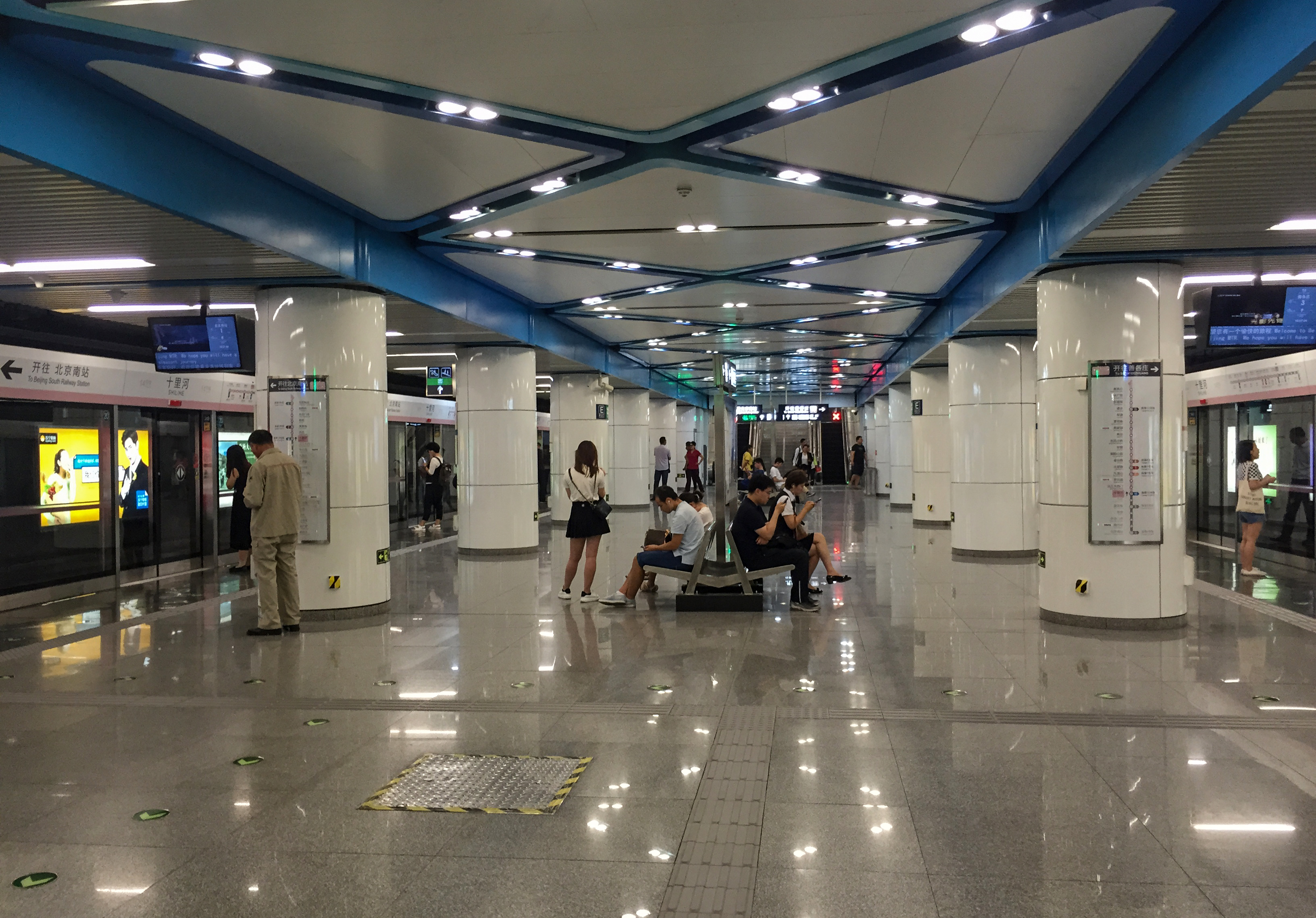 Asymmetric... for sure.